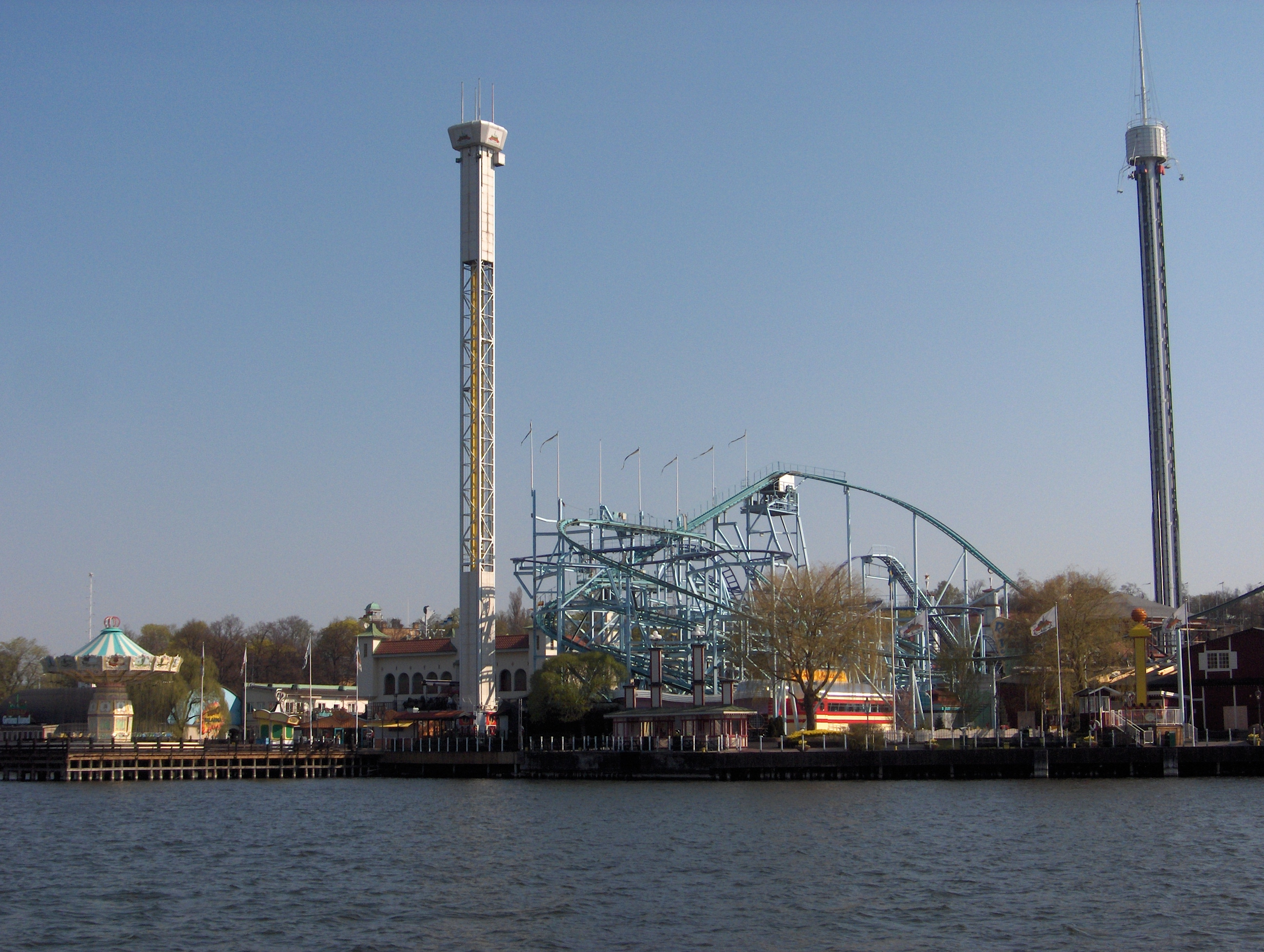 Gröna Lund seen from Djurgårdsfärjan in Stockholm. Photographed by me in spring 2008.